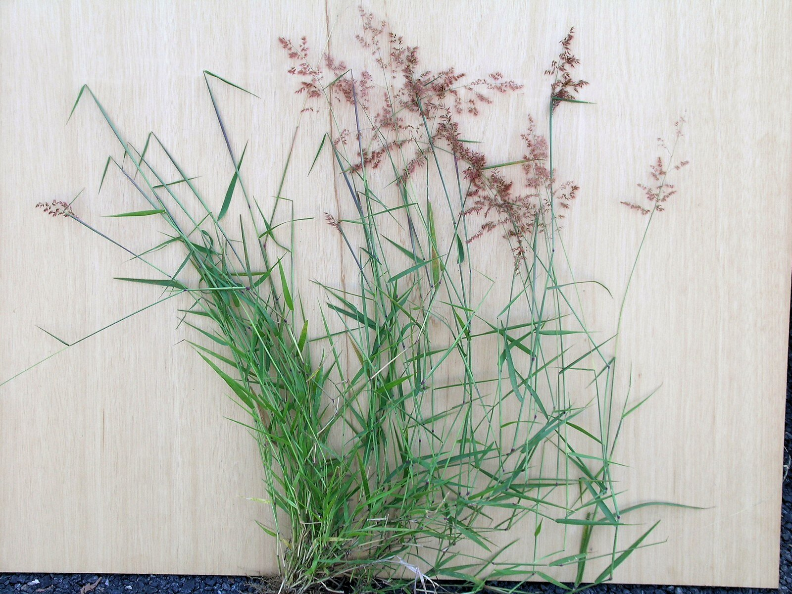 Introduced, warm-season, annual or short-lived perennial, loosely tufted and hairy grass to 1.2 m tall. Stems often root at the lower nodes. A native of Africa, it was possibly introduced as a pasture species, but now only naturalised on roadsides and in wastelands. Rarely occurs in paddocks, except if badly degraded and little grazed.